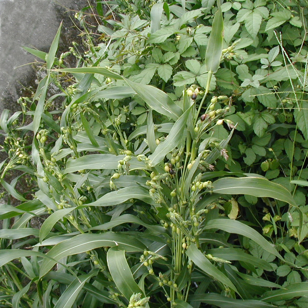 Coix lacryma-jobi:JUZUDAMA：ジュズダマ（数珠玉), taken in Itami-city, Hyogo, Japan.